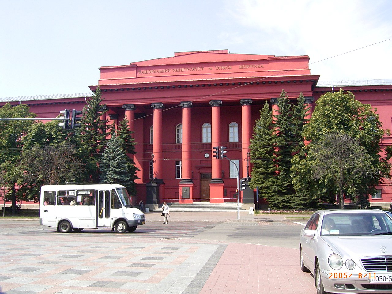 Taras Shevchenko University in Kiev, Ukraine. BAZ 2215 Delfin bus.